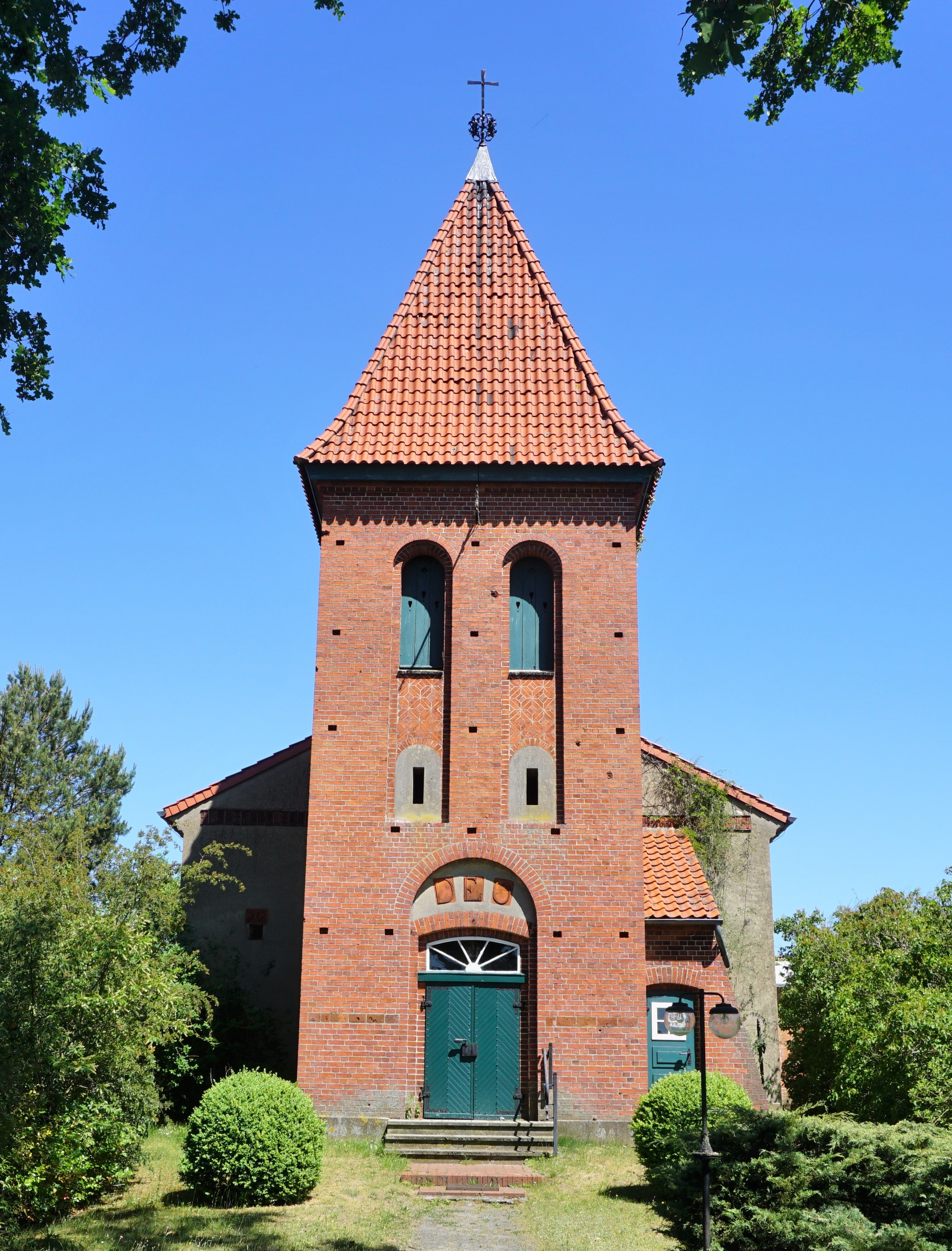 View of the church of Wehningen in Amt Neuhaus, district Lüneburg.